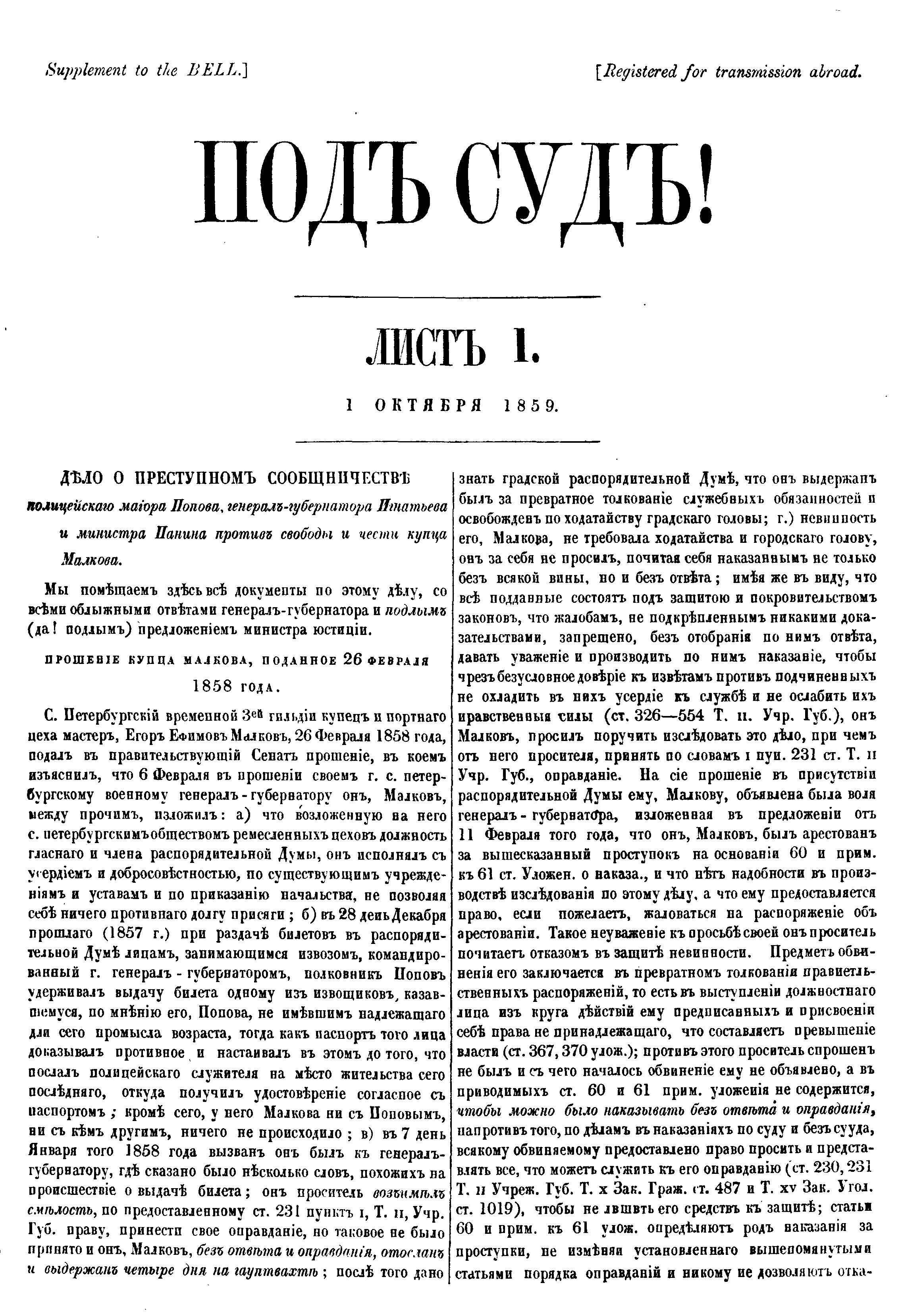 The title page of issue "Под суд!", the exile-russian publication of Alexander Herzen and Nikolay Ogarev. London, 1859.